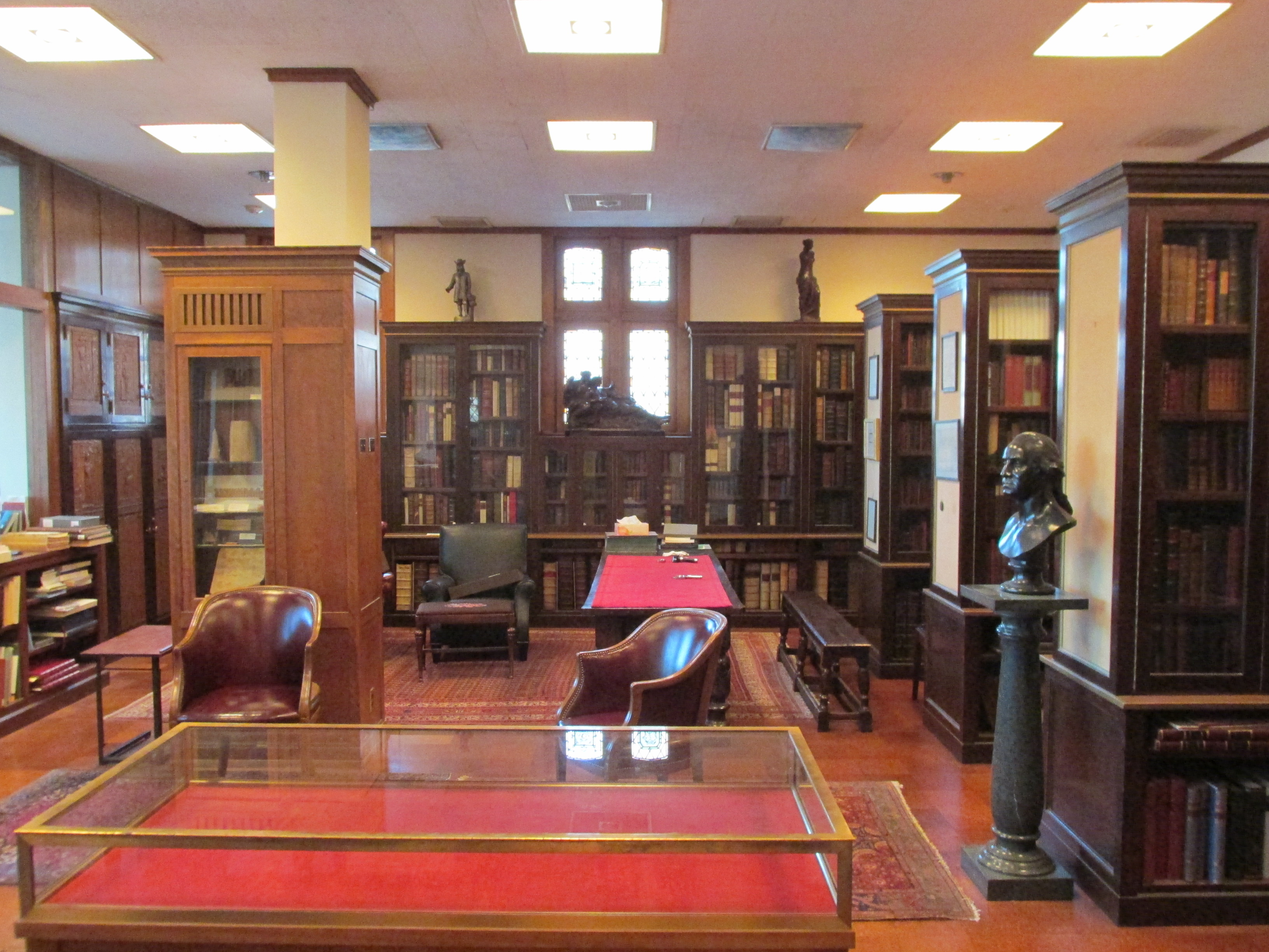 Scheide Library, Princeton University, Princeton New Jersey